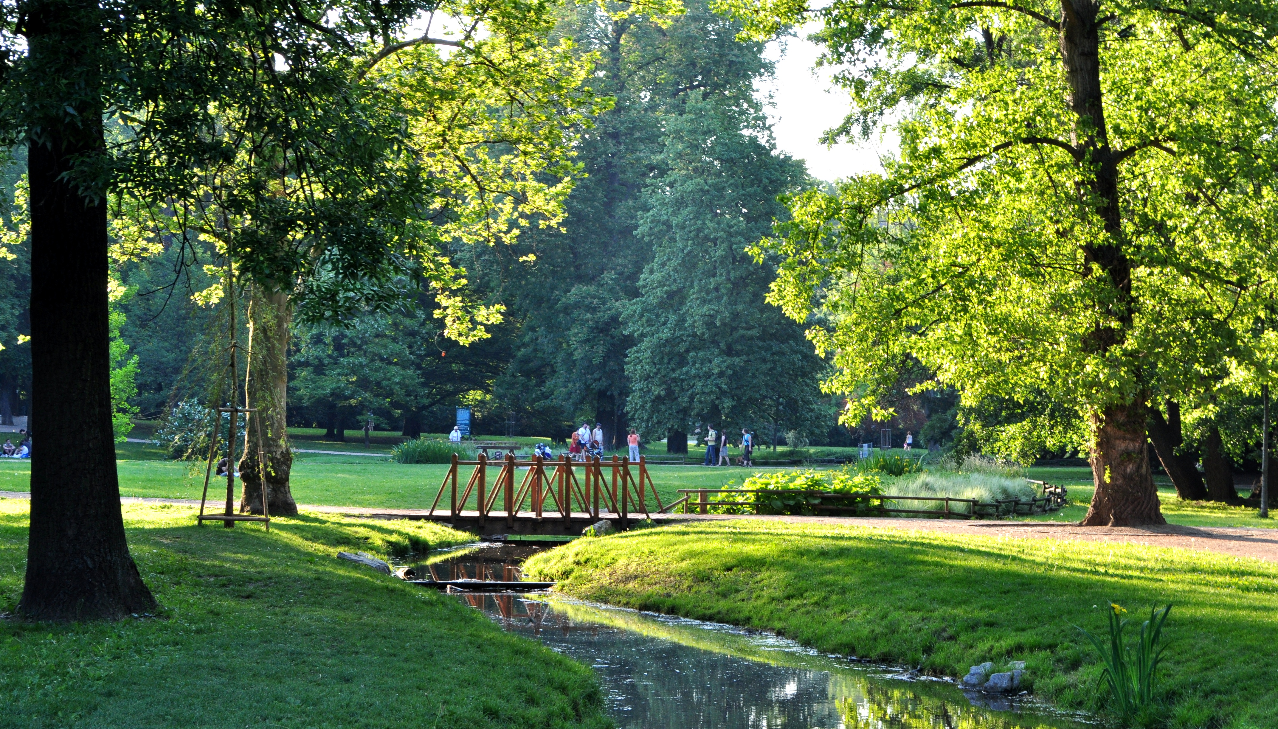 Brno - Lužánky park